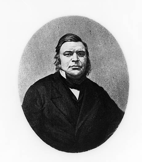 1 negative : glass, wet collodion, b&w ; 12.5 x 10 cm.